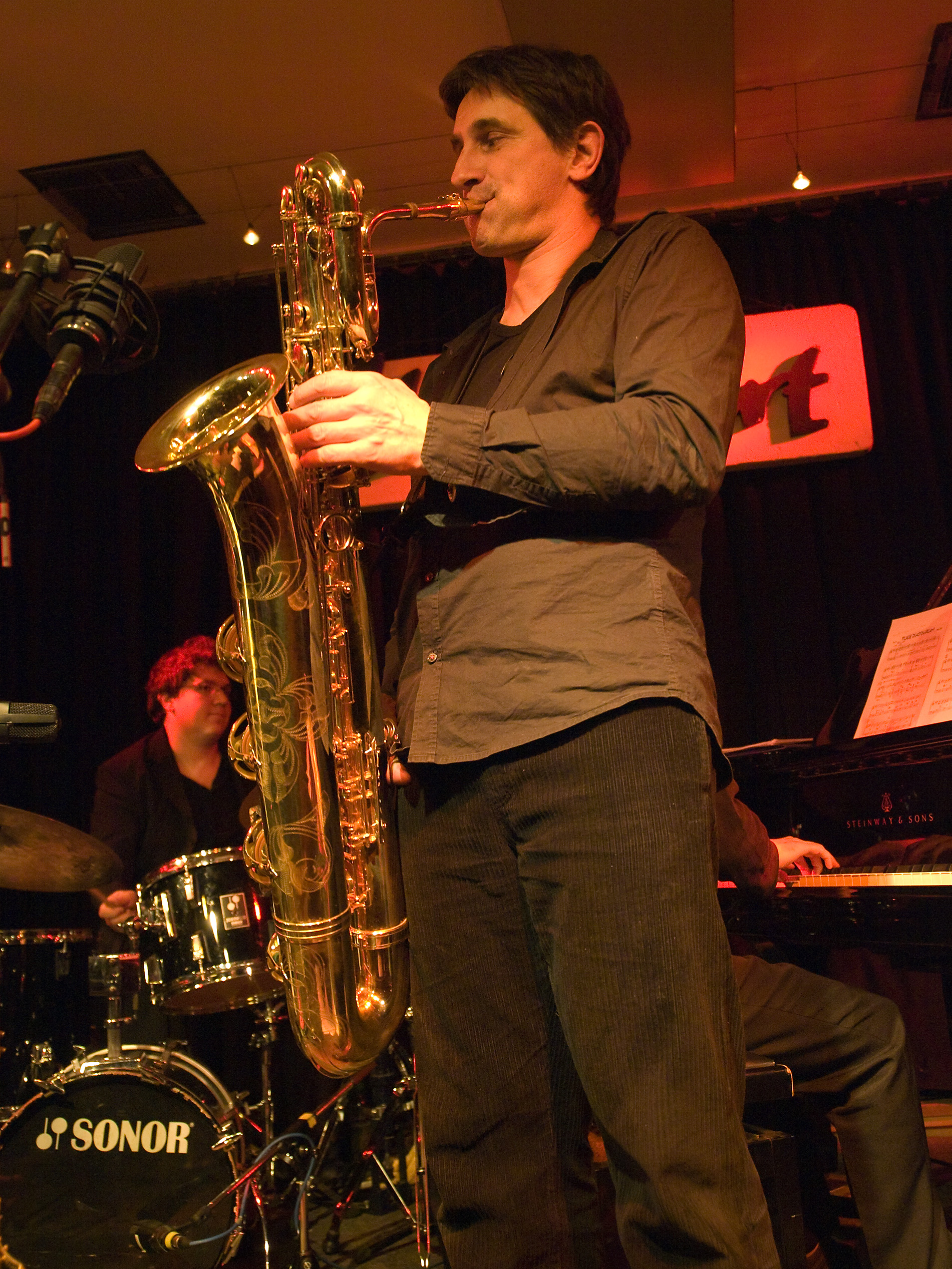 Eric Séva, jazz saxophonist, picture taken in Jazz club "Unterfahrt" in Munich/Germany